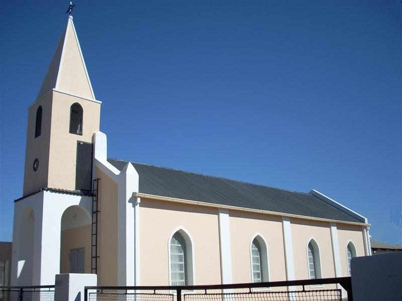 Foto de la Iglesia Evangélica del Río de La Plata de Basavilbaso